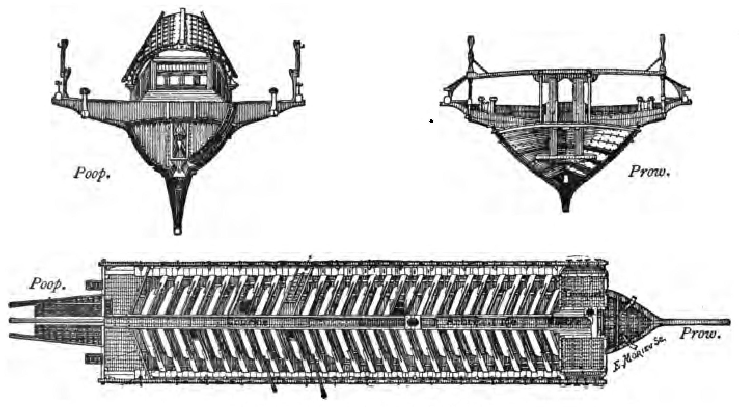 Illustration of the plan and sections of a galley, found in The Story of the Barbary Corsairs' by Stanley Lane-Poole, published in 1890 by G.P. Putnam's Sons.